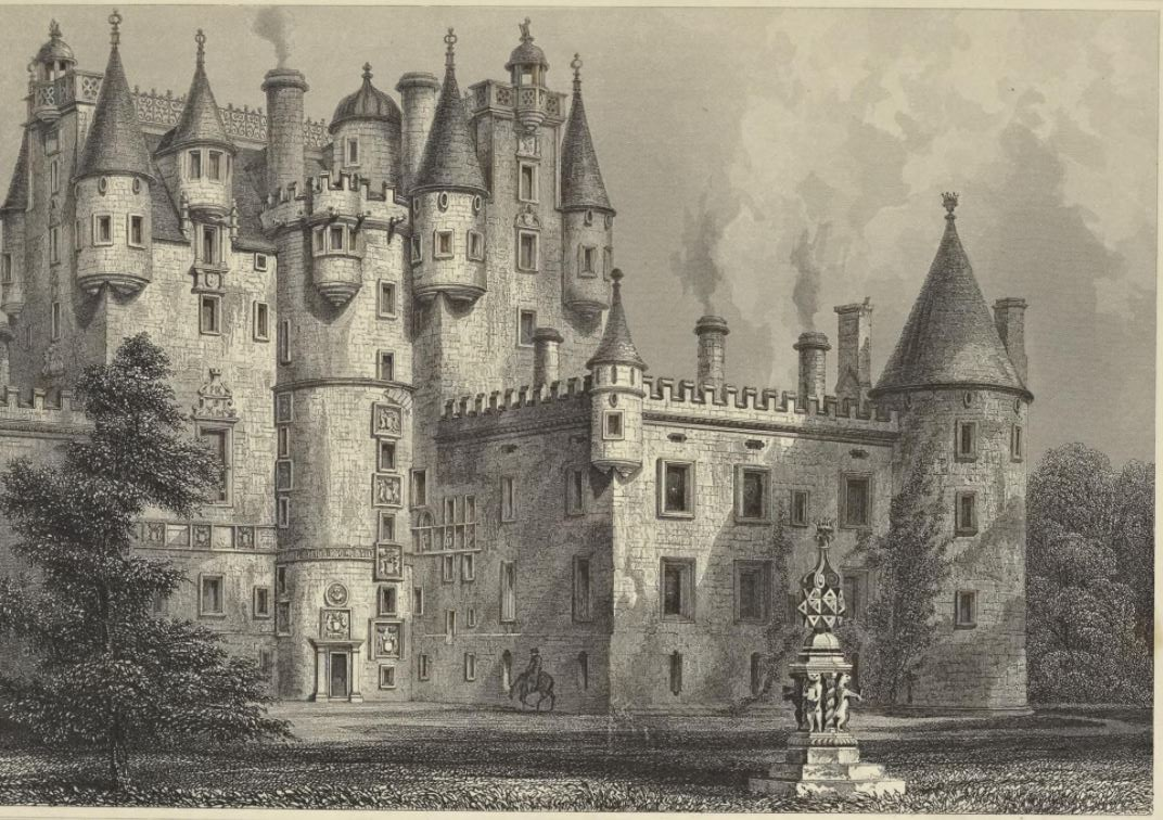 Glamis Castle 1852